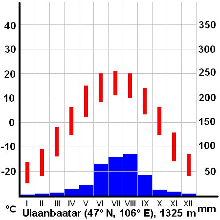 Climate diagram of Ulaanbaatar, Mongolia max. and min. temperature and total precipitations per month drawn by Miaow Miaow, April 2005